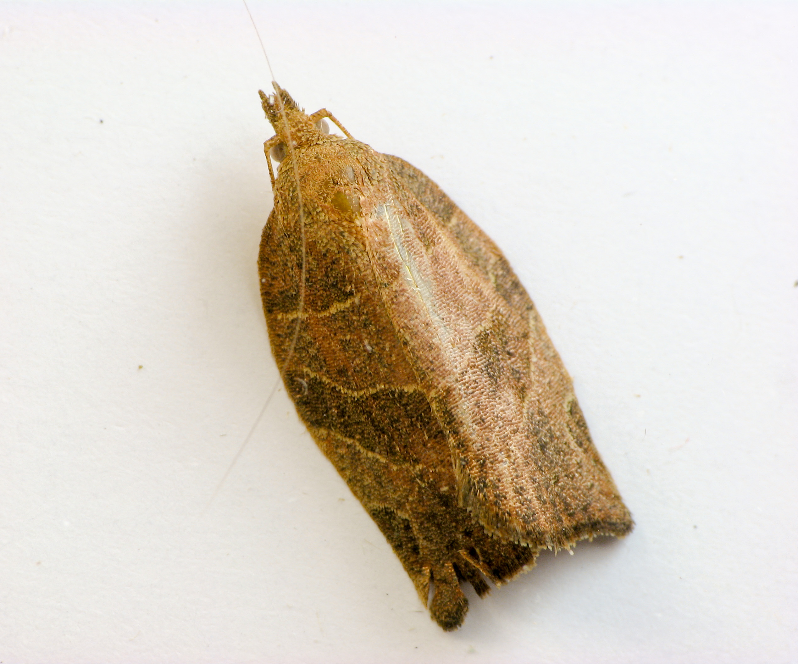 Adult Pandemis limitata (Three-lined Leafroller - Hodges#3594) raised on witch hazel. Size: 14 mm full length. Pennypack Restoration Trust, Montgomery County, Pennsylvania, USA.